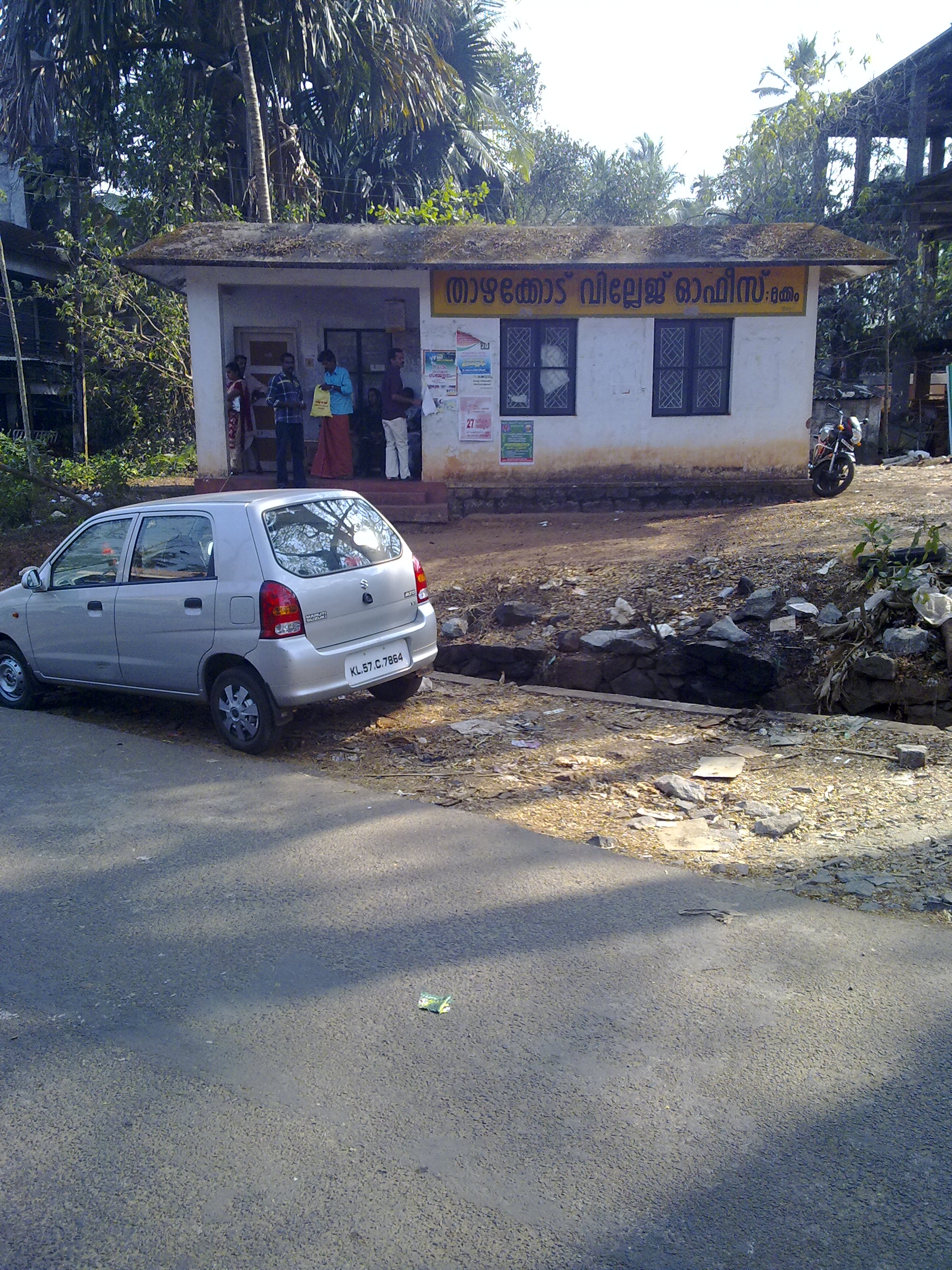 thazhekode village office in mukkom